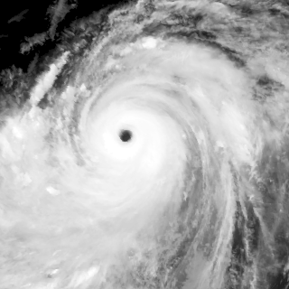 Geostationary imagery of 2018's Typhoon Mangkhut (26W)